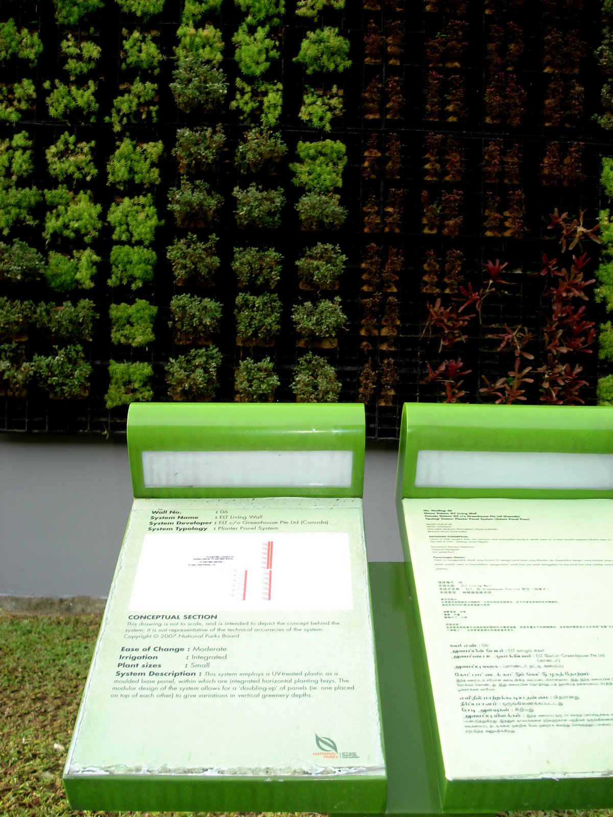 A green wall with information signage in HortPark January 2009